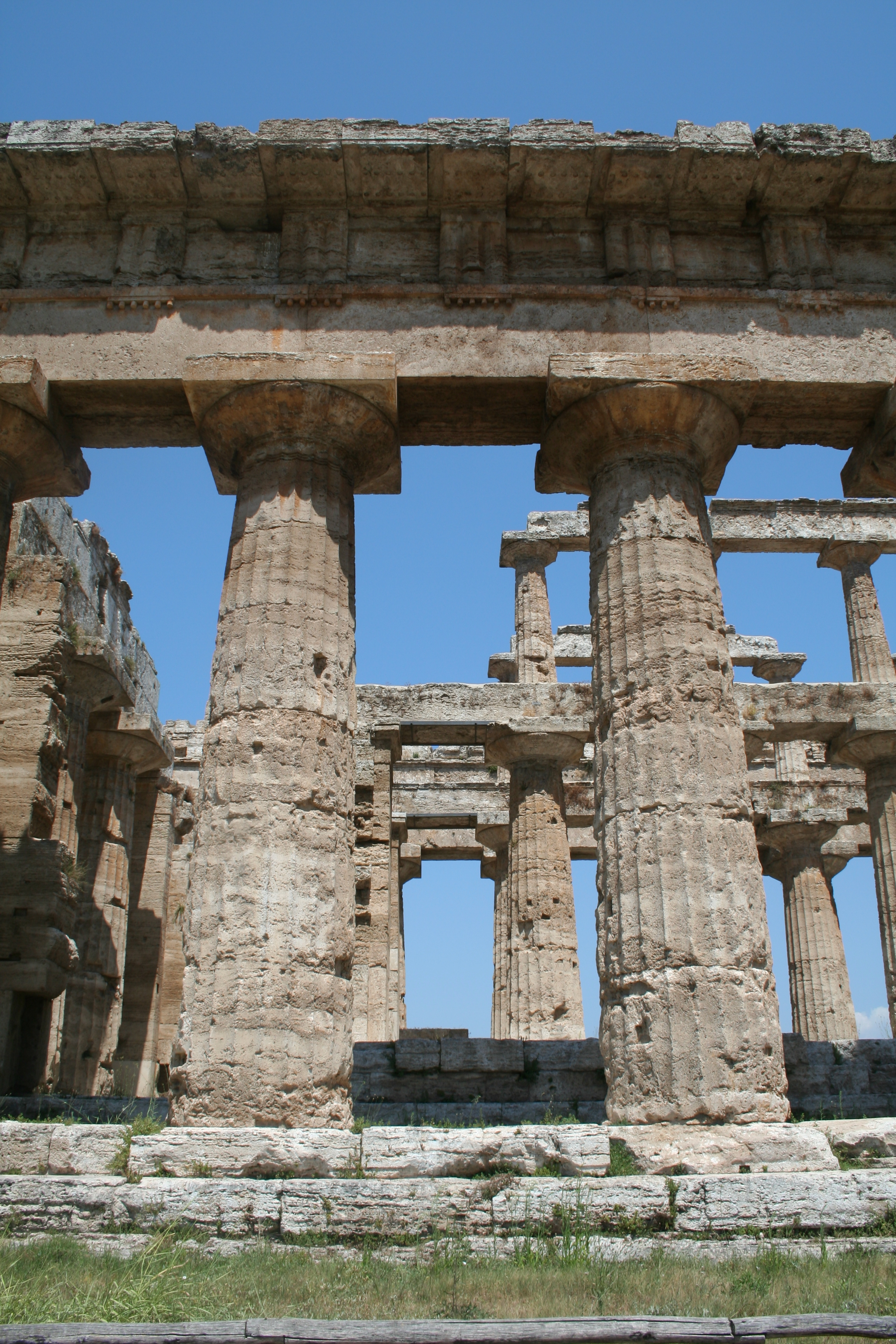 Doric order - Temple of Poseidon - Paestum - Italy